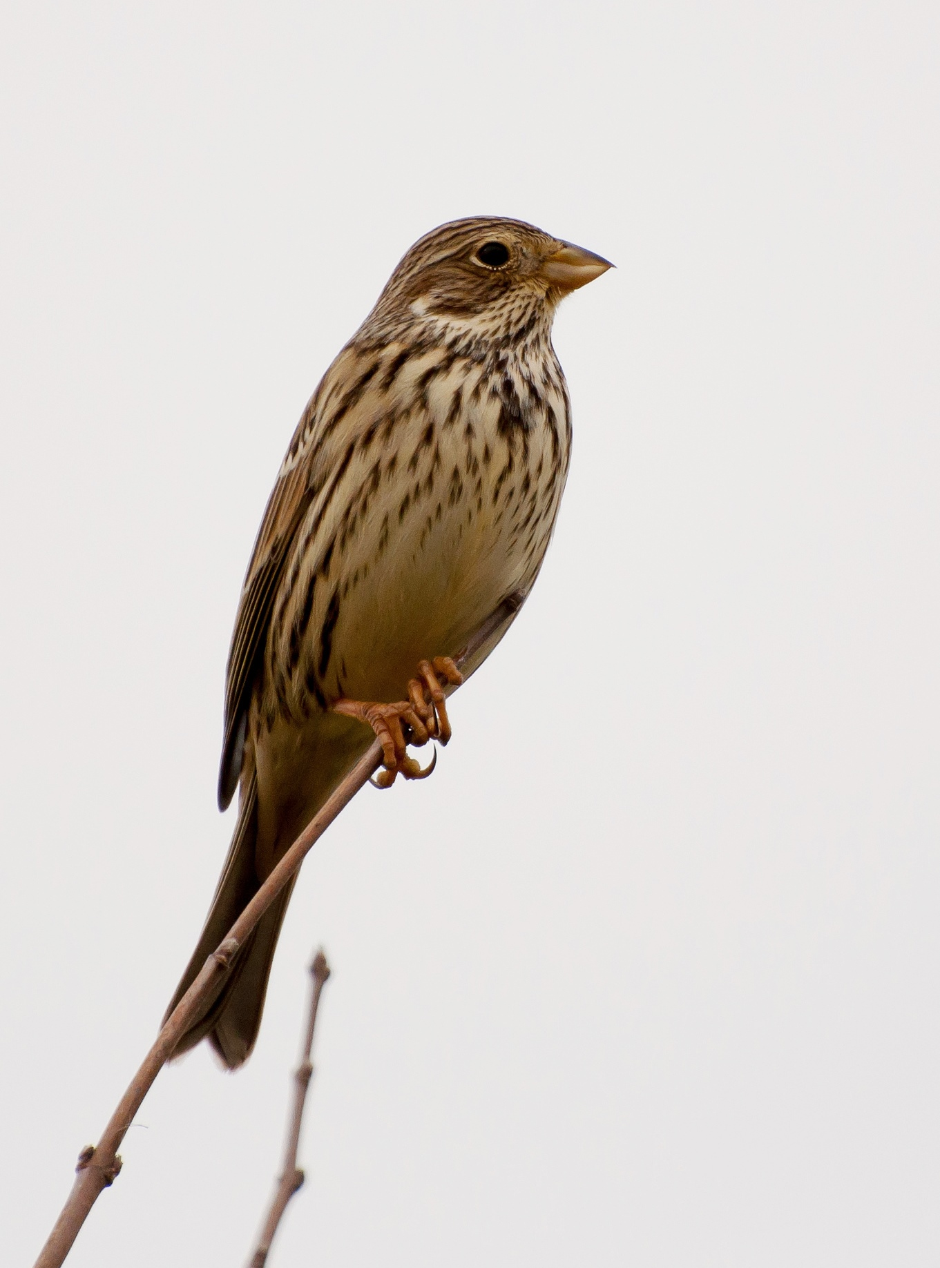 A Corn bunting in Jardin des Plantes, Paris, France